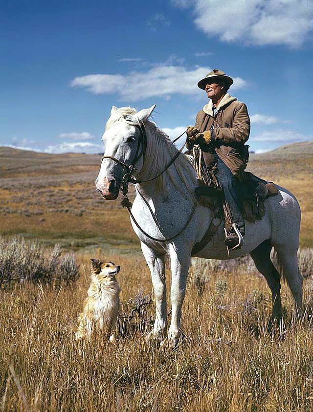 Shepherd with his horse and dog on Gravelly Range, Madison County, Montana, August 1942. Reproduction from color slide. Photographed by Russell Lee.